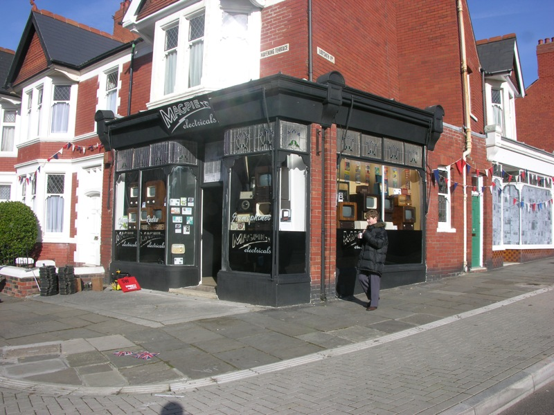 “Magpie Electricals”: a 1950s TV repair shop recreated in an unused shop front – Doctor Who filming location for episode “The Idiot's Lantern”. Actual location: Kimberely Road / Blenheim Road in Cardiff Penylan